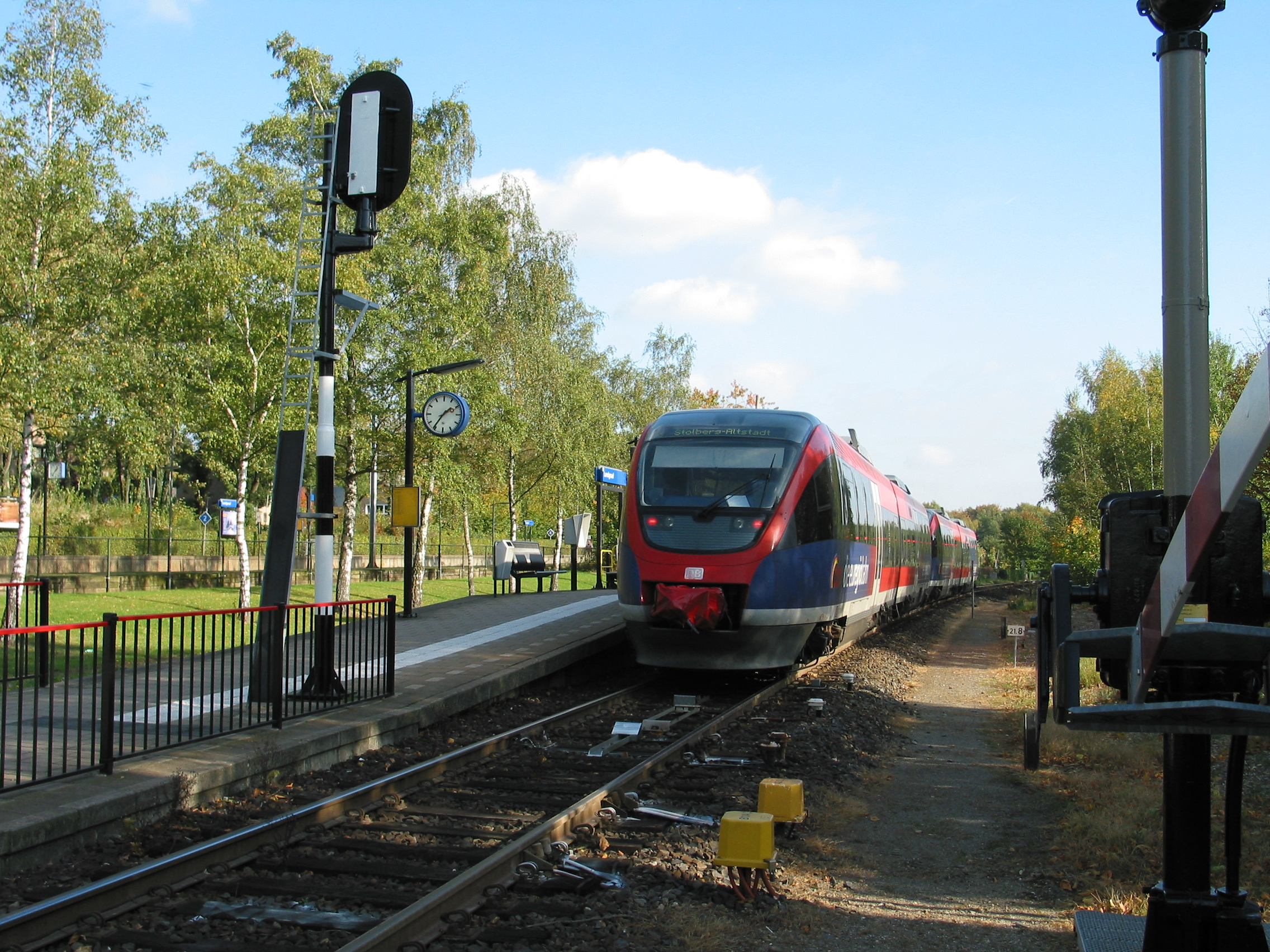 Bombardier Talent class 643.2 from the Euregiobahn on the railway line Sittard–Herzogenrath at the station of Landgraaf.